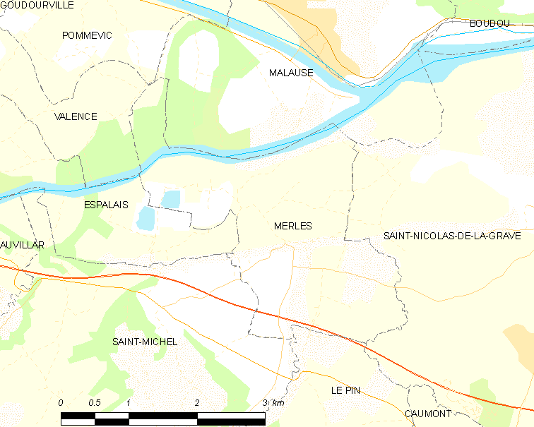 Map of French municipality Merles